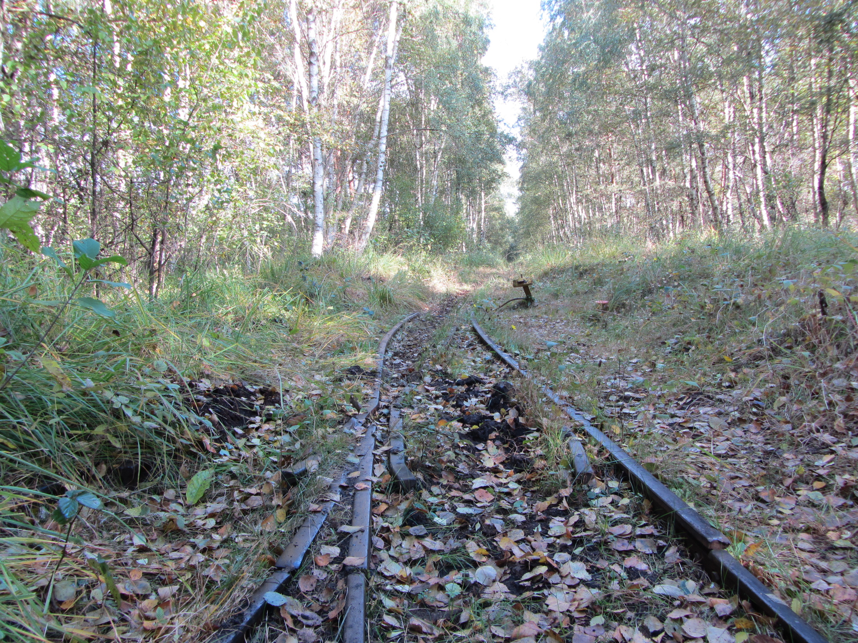 Narrow gauge railway track in the former peat extraction area in the nature reserve Grambower Moor near Grambow, district Ludwigslust-Parchim, Mecklenburg-Vorpommern, Germany